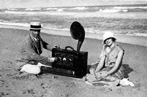 American engineer Edwin Armstrong the inventor of the superheterodyne radio receiver, with his new wife Esther Marion MacInnis in Palm Beach, Florida, in 1923. The radio is a portable superheterodyne set that Armstrong built as a gift for her.